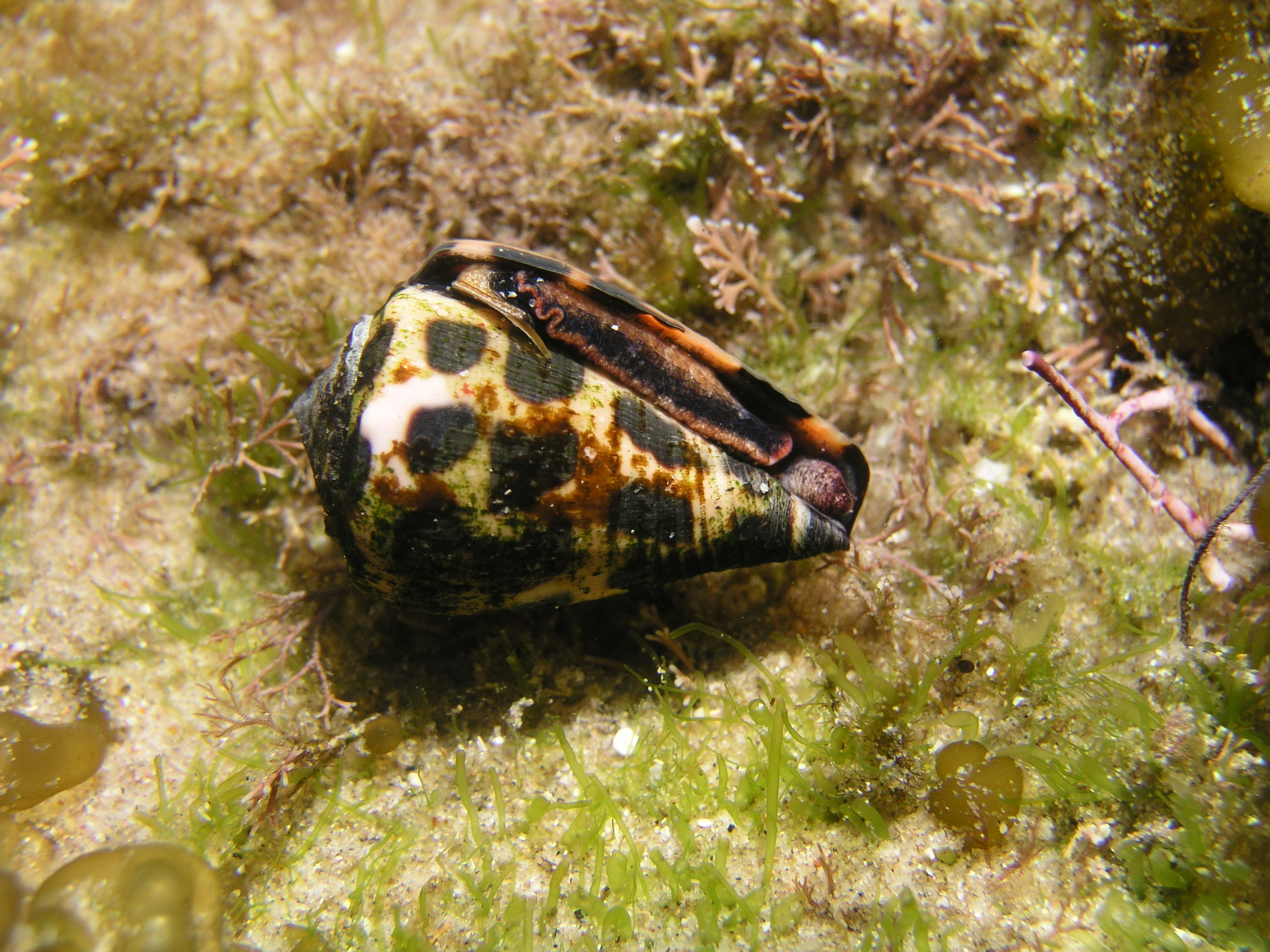 molluscs One Tree Point